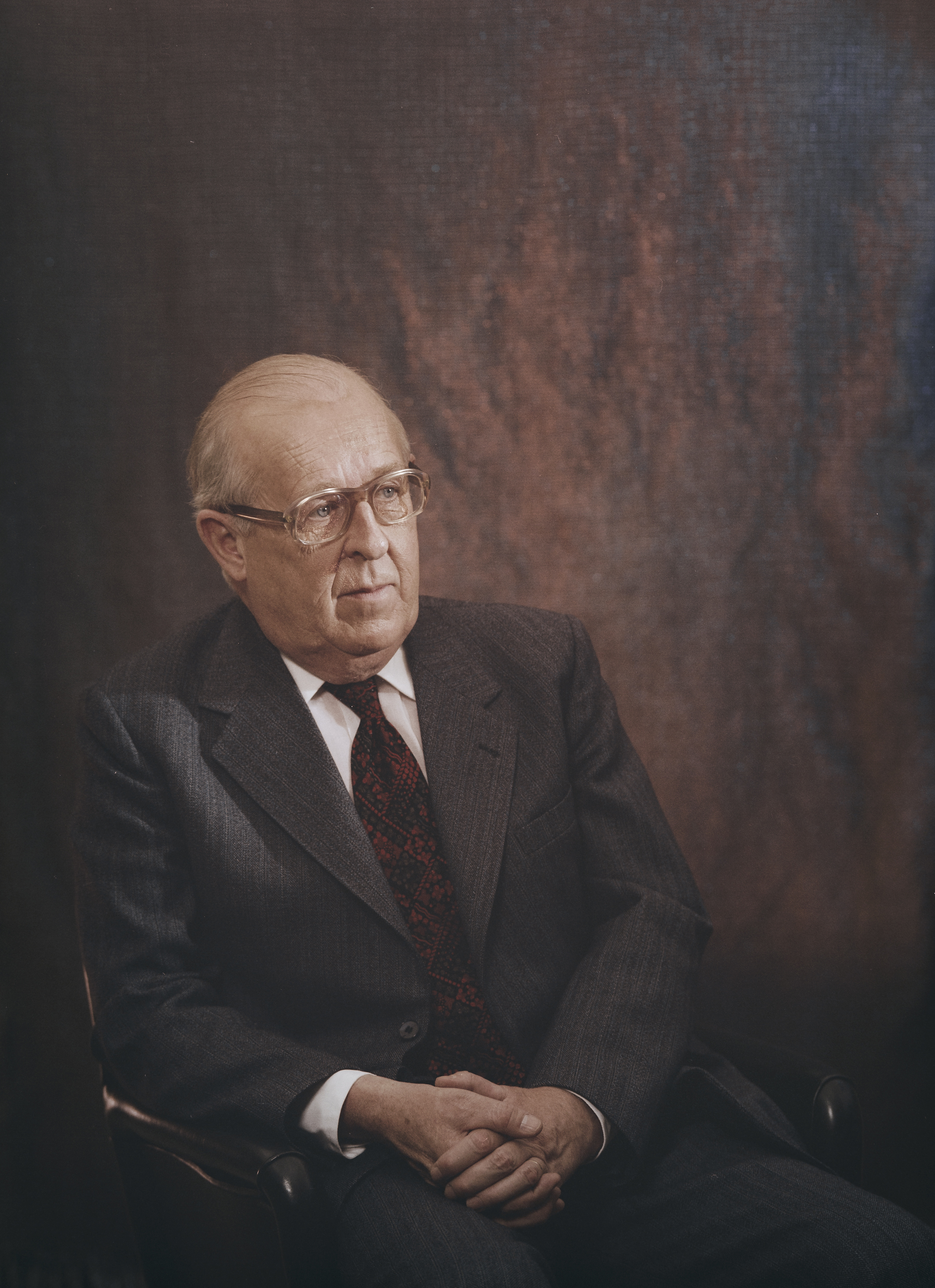 Photograph of the Finnish judge Curt Olsson (1919–2014).